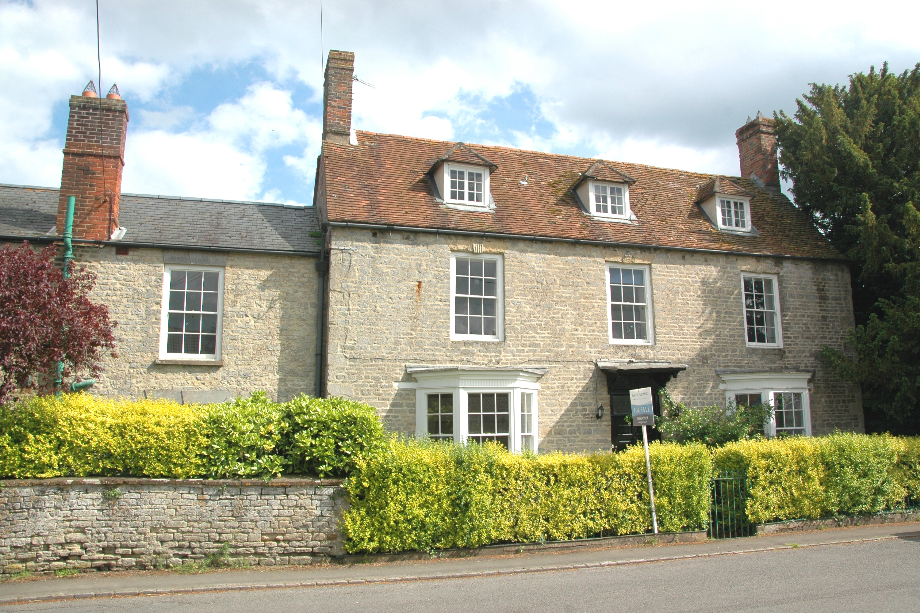 Park Farmhouse, Merton Road, Ambrosden, Oxfordshire